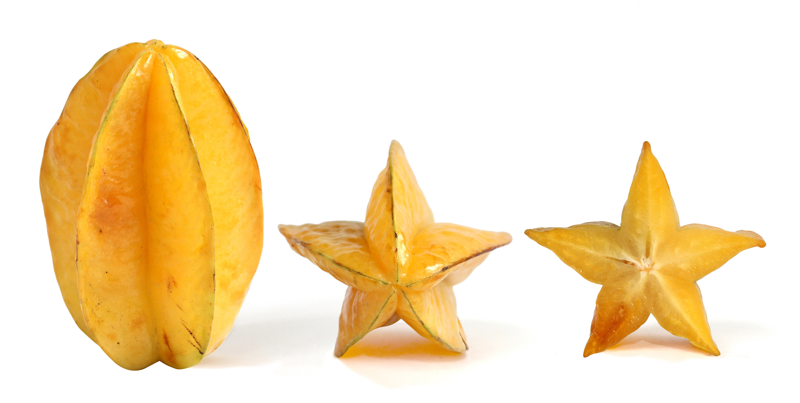 Ripe Carambolas, also known as starfruit, the fruit of Averrhoa carambola tree: vertical, side and cross section profiles. The fruit in cross section is a five-pointed star, hence its name.